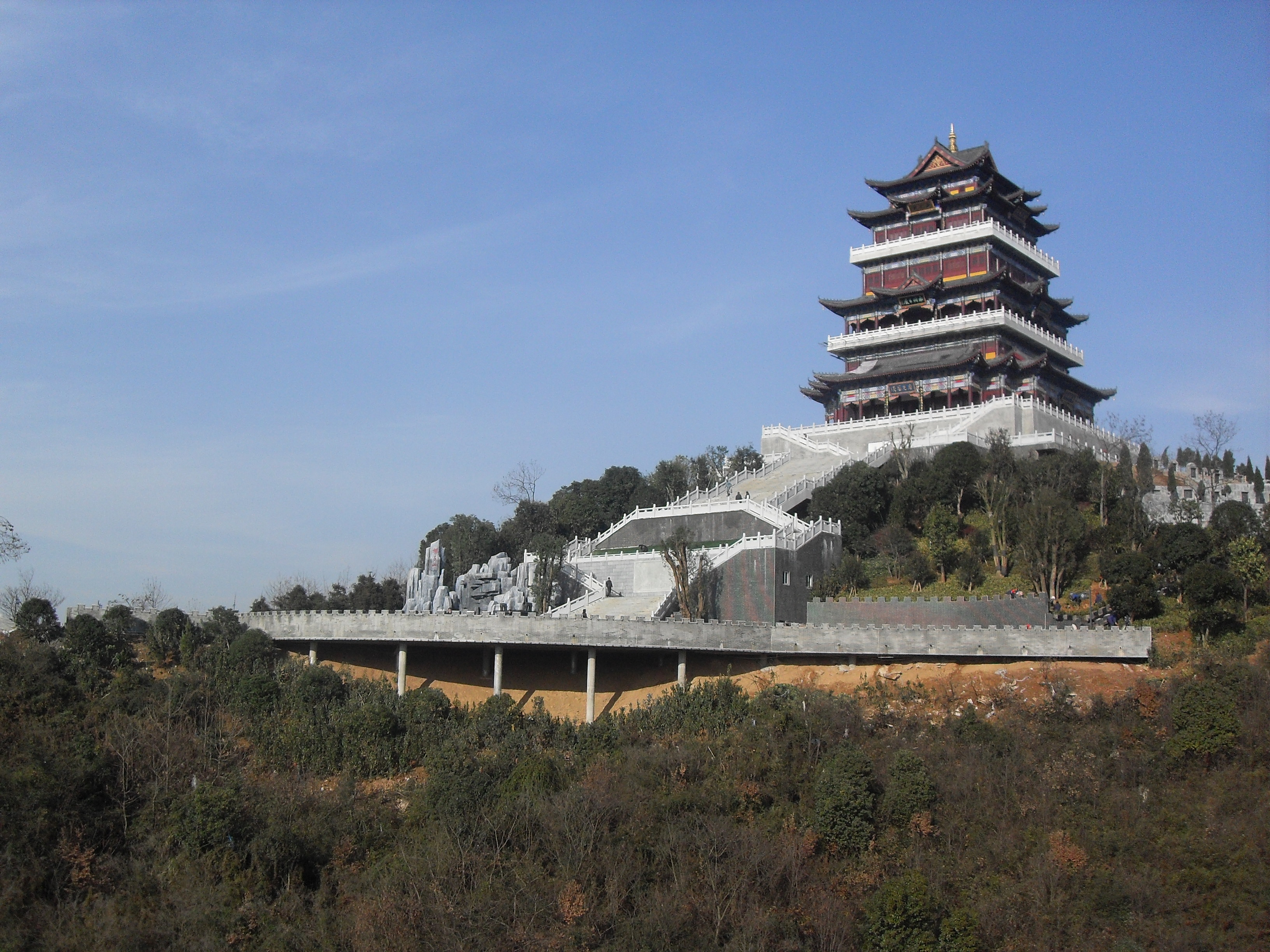 Jiujiang's newest pagoda